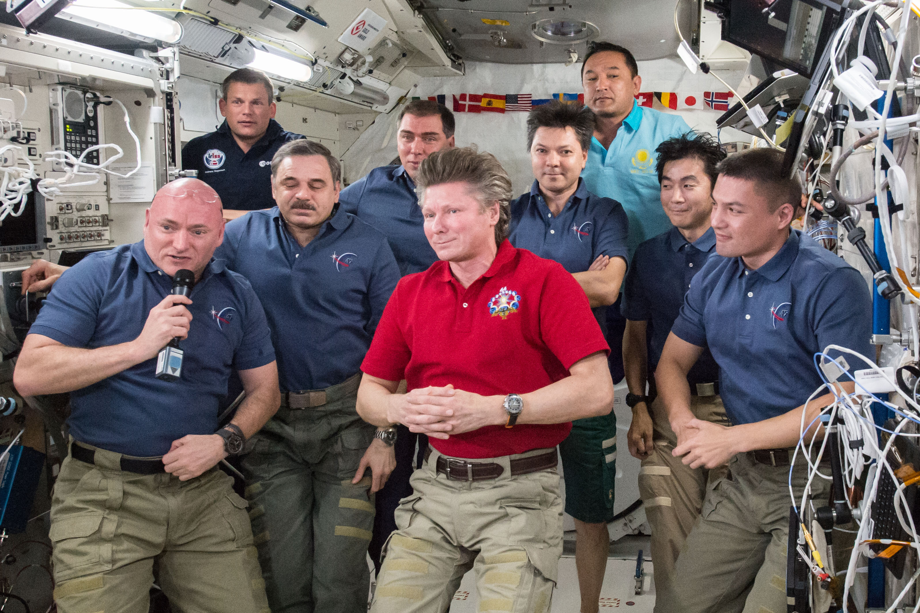 Cosmonaut Gennady Padalka (center in red shirt) handed command of the International Space Station to NASA astronaut Scott Kelly (front left with microphone) on Sept. 5, 2015. In the background the rest of the space station crew was on hand (from left to right): ESA(European Space Agency) astronaut Andreas Mogensen (back), Russian cosmonauts Mikhail Kornienko, Sergey Volkov and Oleg Kononenko, Kazakh cosmonaut Aidyn Aimbetov, Japan Aerospace Exploration Agency (JAXA) astronaut Kimiya Yui and NASA astronaut Kjell Lindgren.